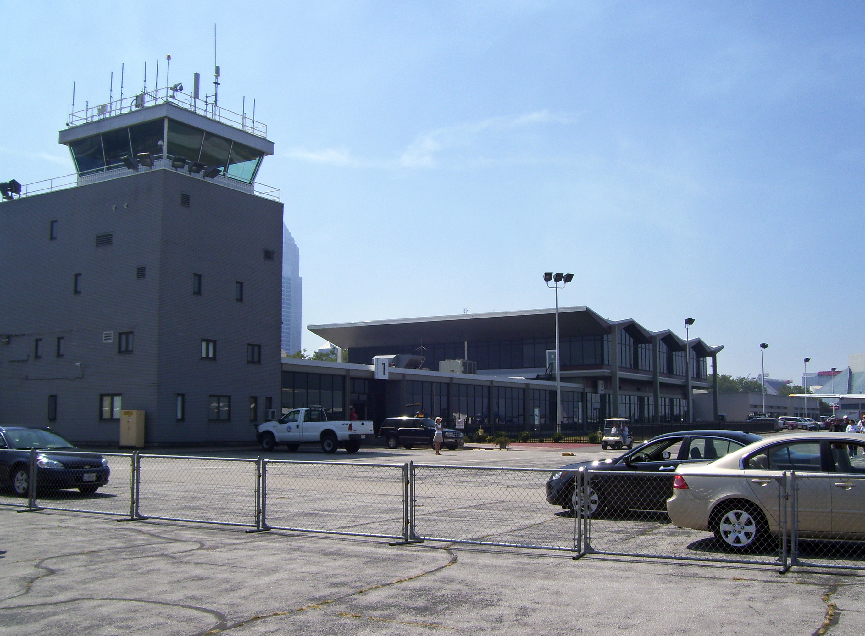 Cleveland Burke Lakefront Airport terminal and control tower as seen from the tarmac.